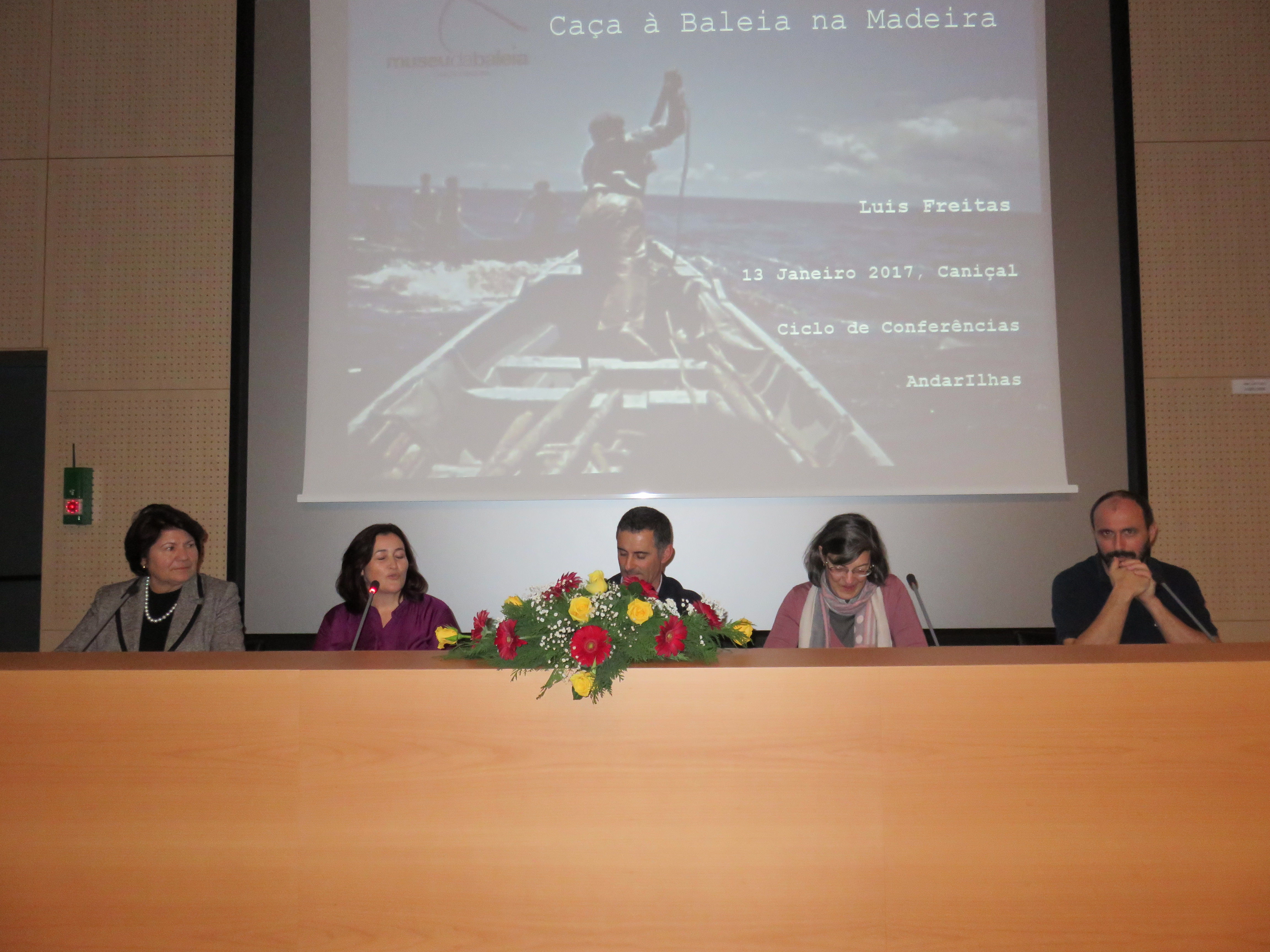 Conferências AndarIlhas - Caniçal - Madeira